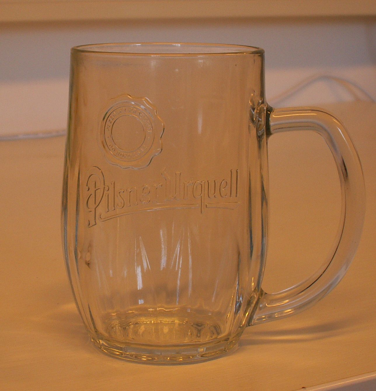 Picture of a beer mug with the Pilsner Urquell logo. Made the picture myself (see URL).